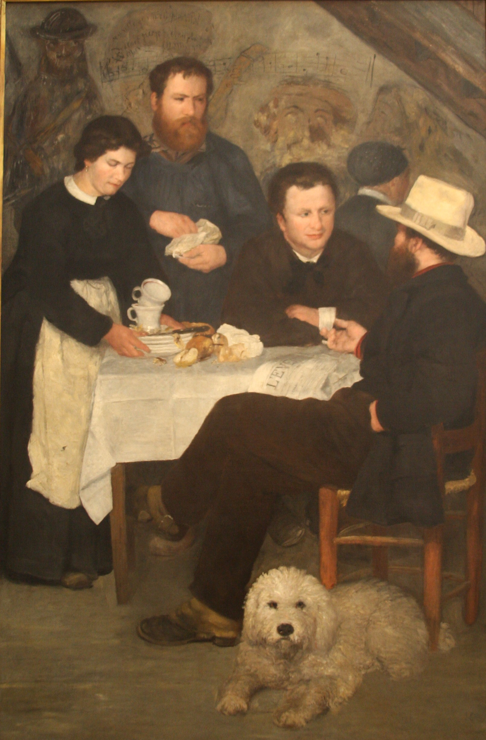 (PIERRE-) AUGUSTE RENOIR, painting "In Mother Anthony's Tavern", dated 1866. National Museum, Stockholm.